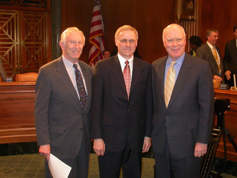 Peter W. Hall (center), a federal judge on the United States Court of Appeals for the Second Circuit, with United States Senators Jim Jeffords (left) and Patrick Leahy (right) after Hall's confirmation hearing.